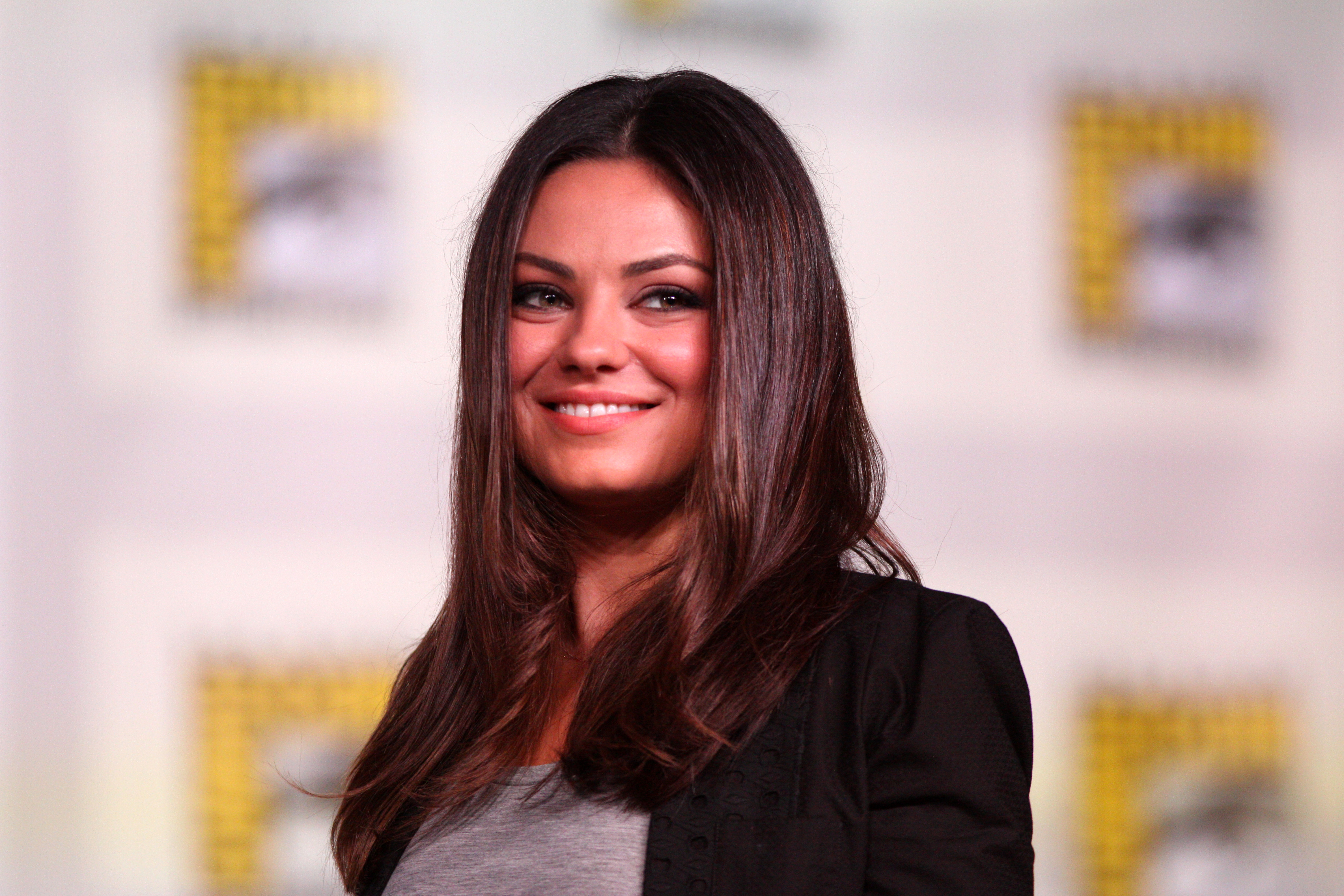 Mila Kunis speaking at the 2012 San Diego Comic-Con International in San Diego, California.